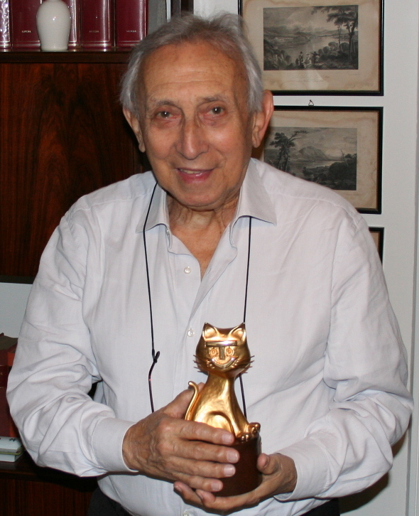 Roberto Pregadio with the Telegatto